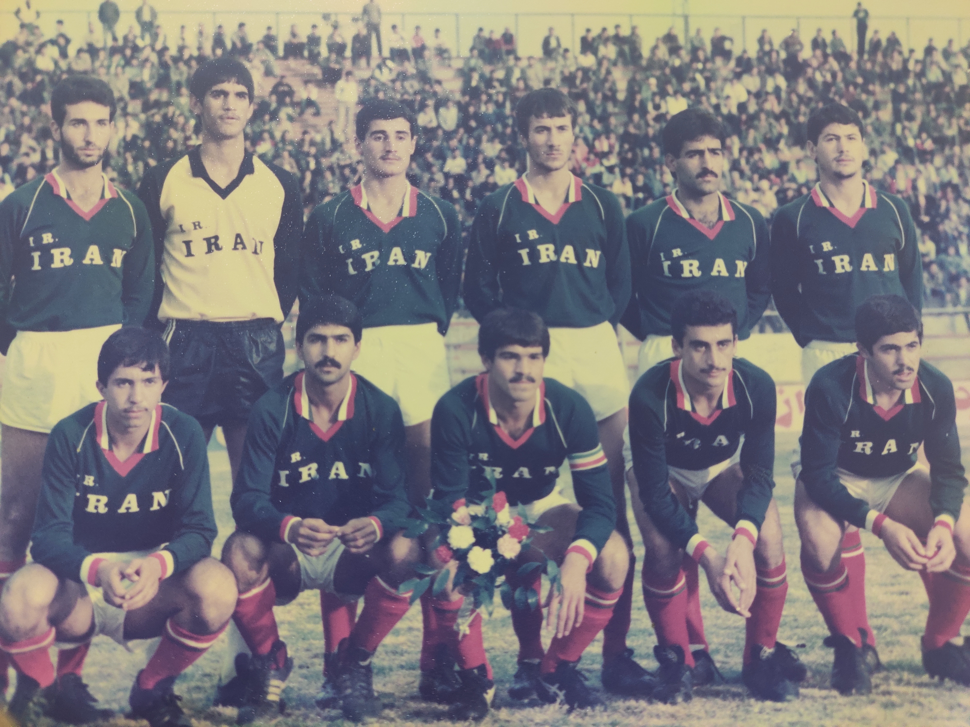 Iran National Football Team- Youth